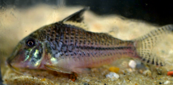 Corydoras acutus from the Rio Para